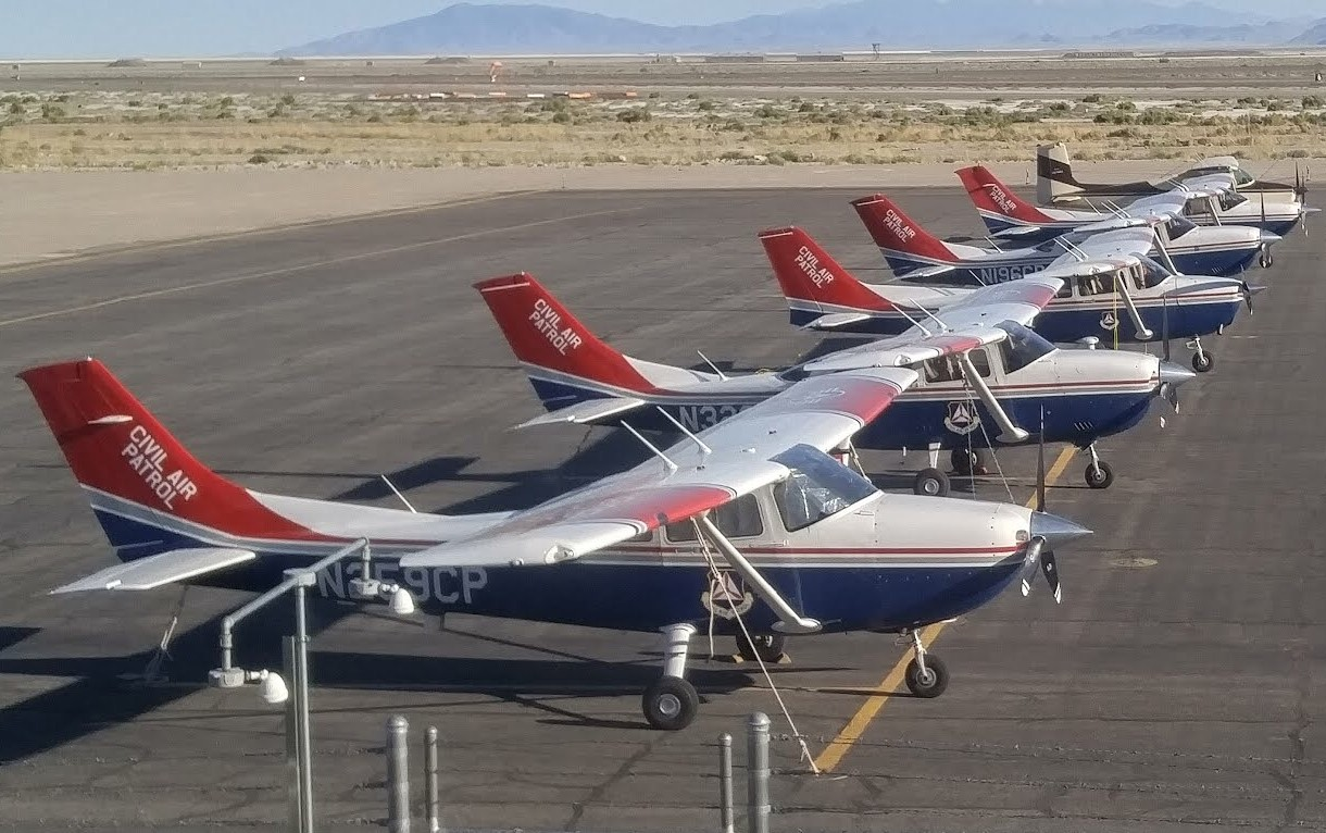 Civil Air Patrol aircraft used to support CAP missions in all three areas: Emergency Services, Aerospace Education, and Cadet Programs. Civil Air Patrol has one of the largest fleets of single-engine light aircraft in the world.